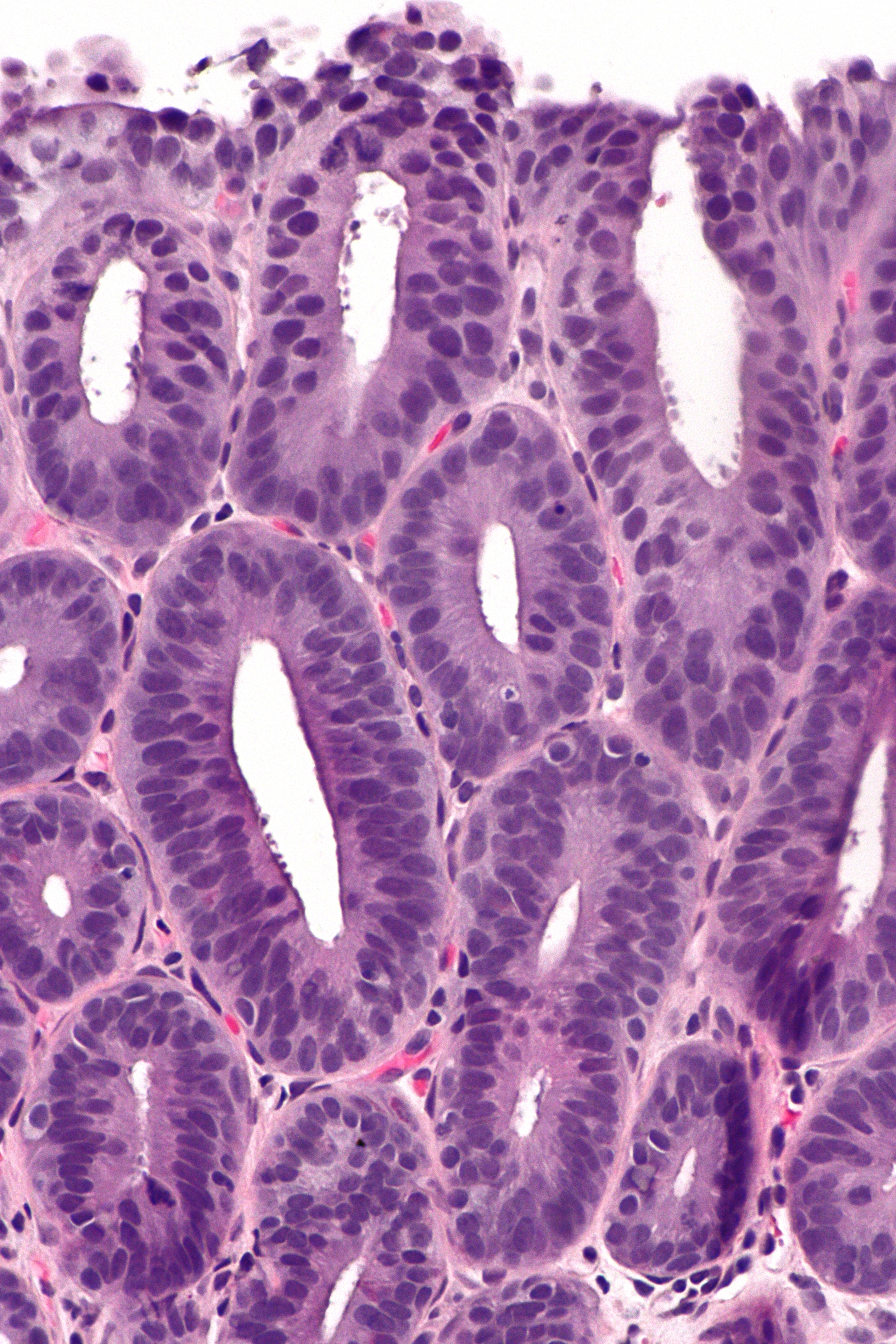 Micrograph of high-grade columnar dysplasia of the esophagus, also high-grade dysplasia. H&E stain. Biopsy. This is the precursor to adenocarcinoma of the esophagus (esophageal adenocarcinoma). It classically arises in the context of Barrett's esophagus. Related images HGD - low mag. HGD - intermed. mag. HGD - intermed. mag. HGD - high mag.